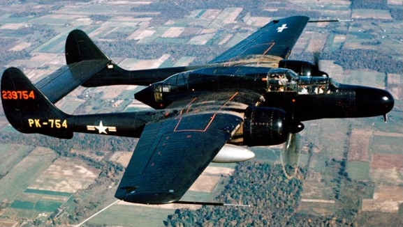 A Northrop P-61B-15-NO Black Widow (s/n 42-39754) used by the NACA Glenn Research Center from 1945 to 1948 in ramjet tests.